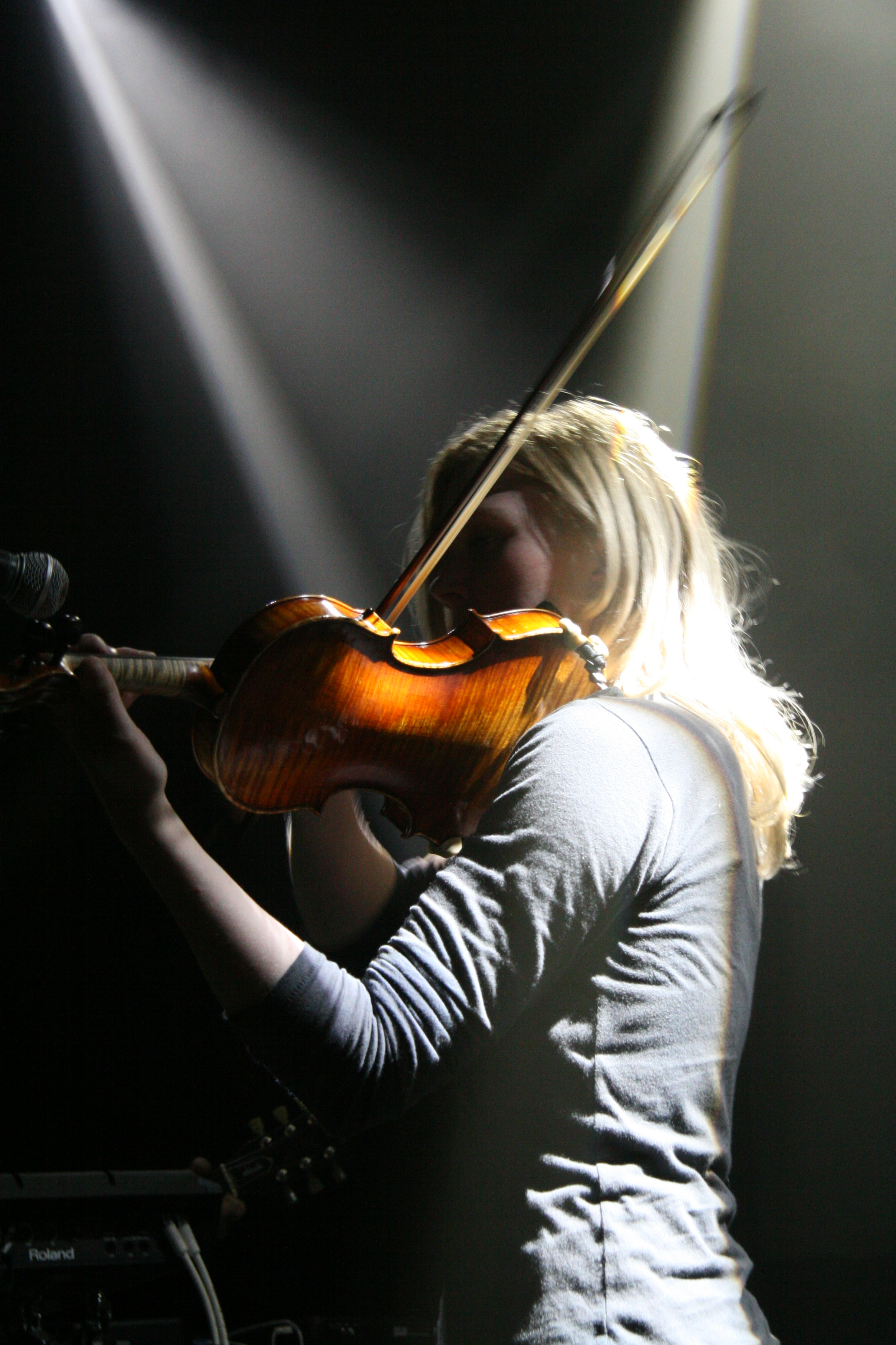 American band A Whisper in the Noise during the concert in Club Fléda, Brno, Czech Republic. 1st May 2012. Project: Fotíme Česko